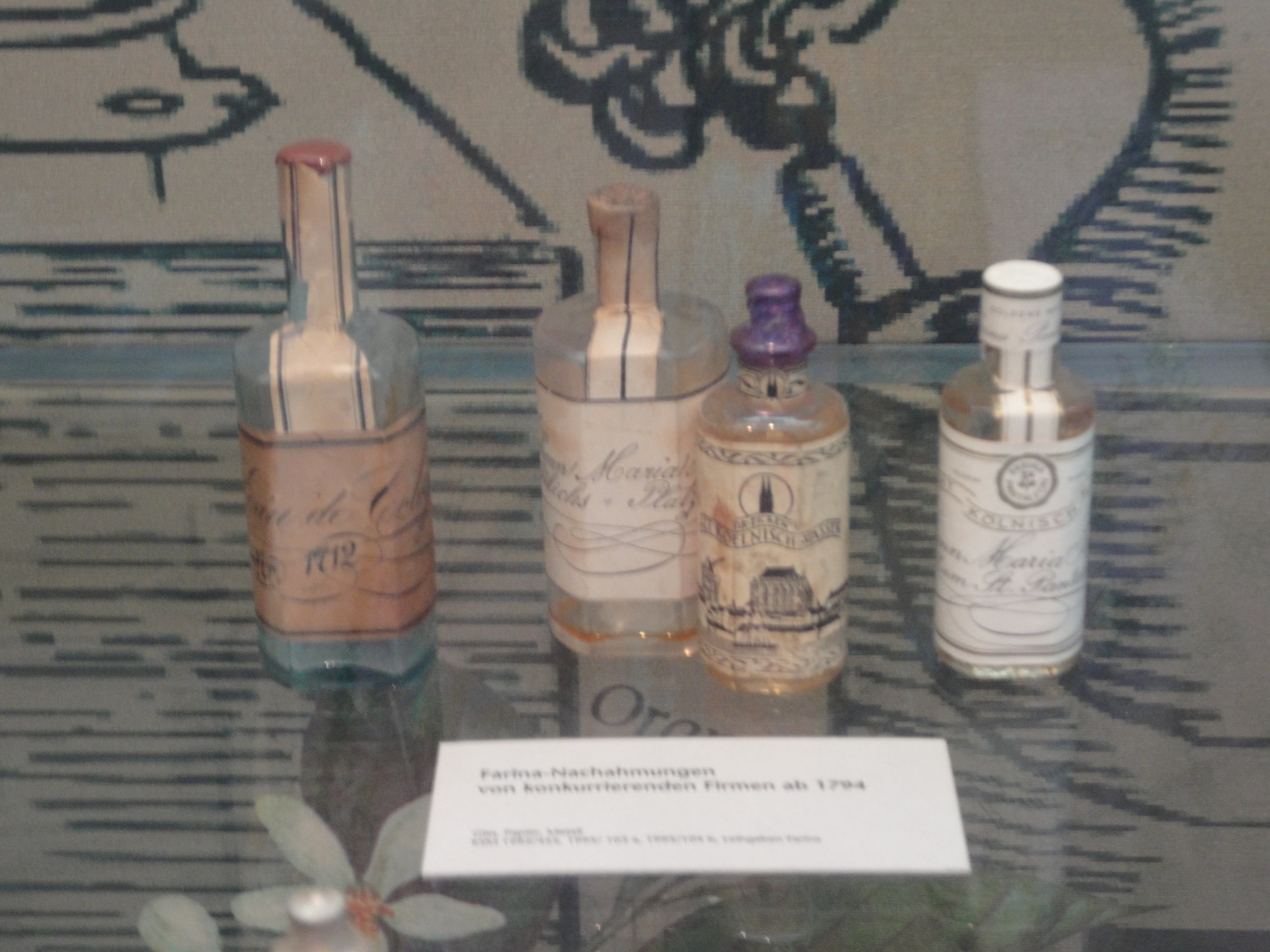 imitations of other Eau de Cologne brands